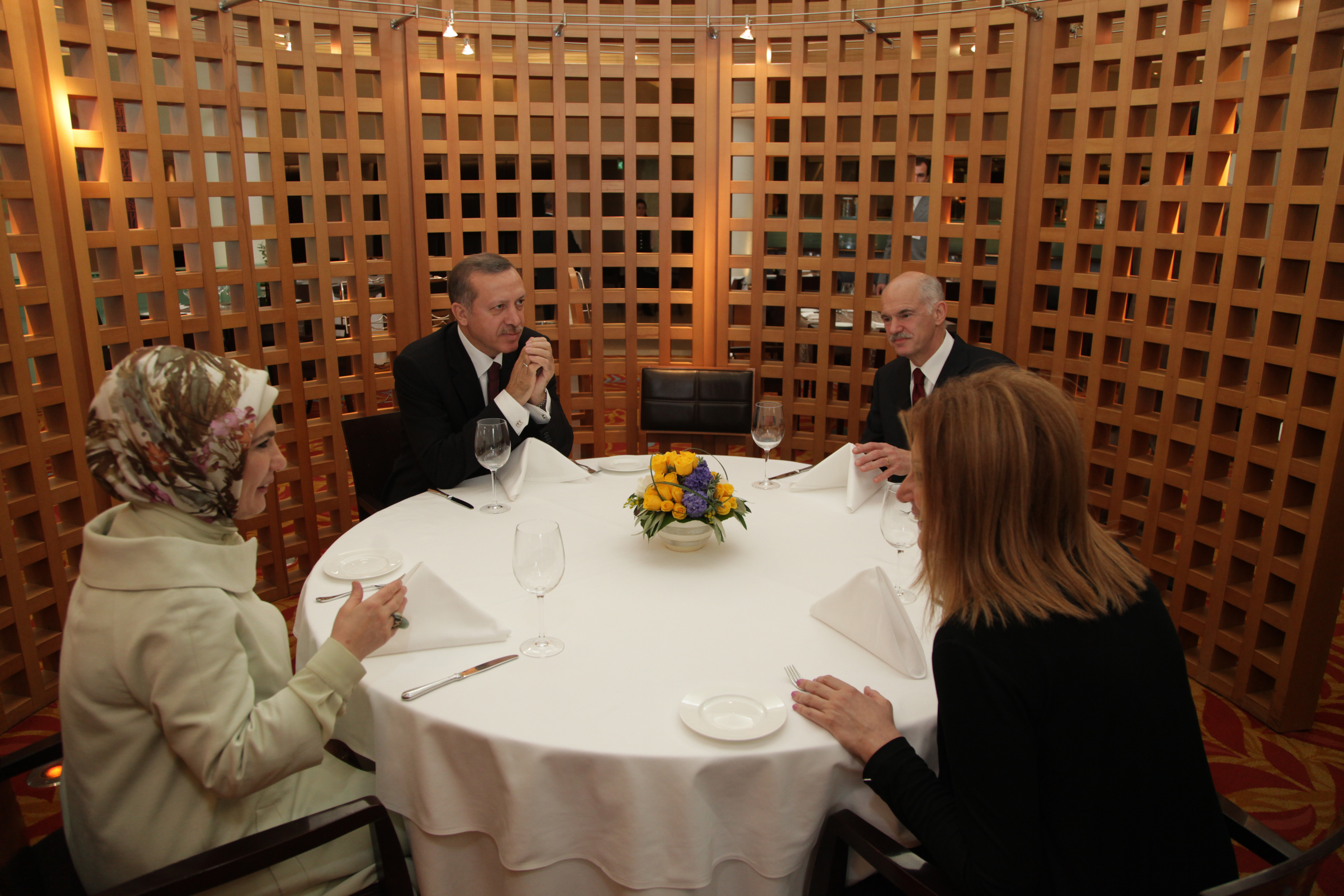 Lunch hosted by the Greek Prime Minister and his wife in honor of Turkish Prime Minister and his wife